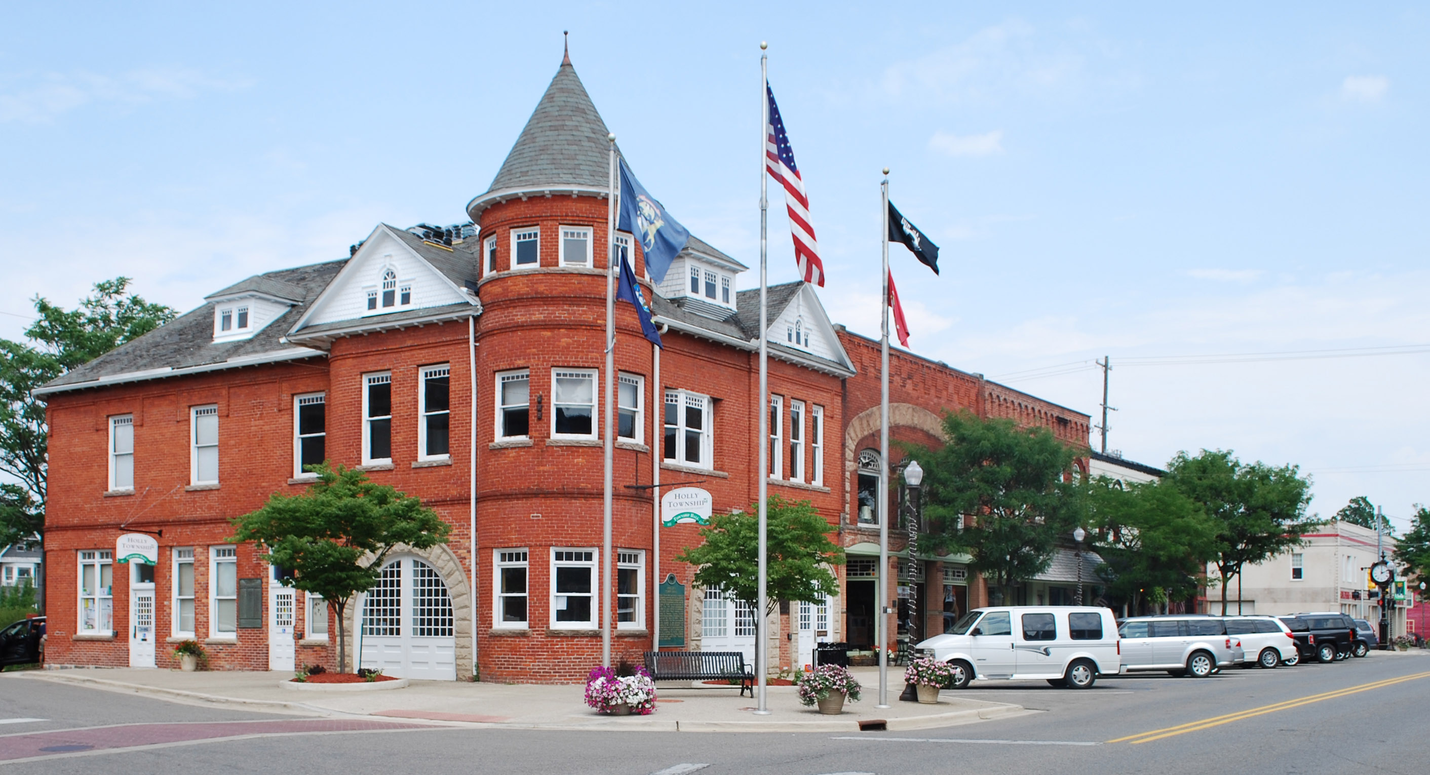 Downtown Holly MI